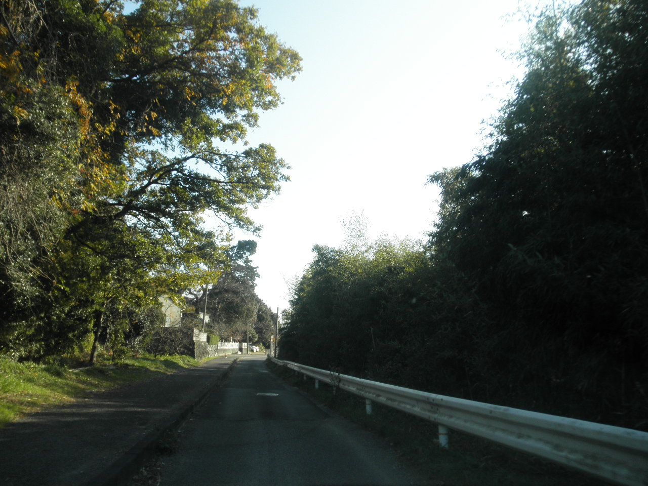 Oharatown 野神 Tokushimacity Tokushimapref Tokushimaprefectural road 402 Anan Tokushima Rotation Line